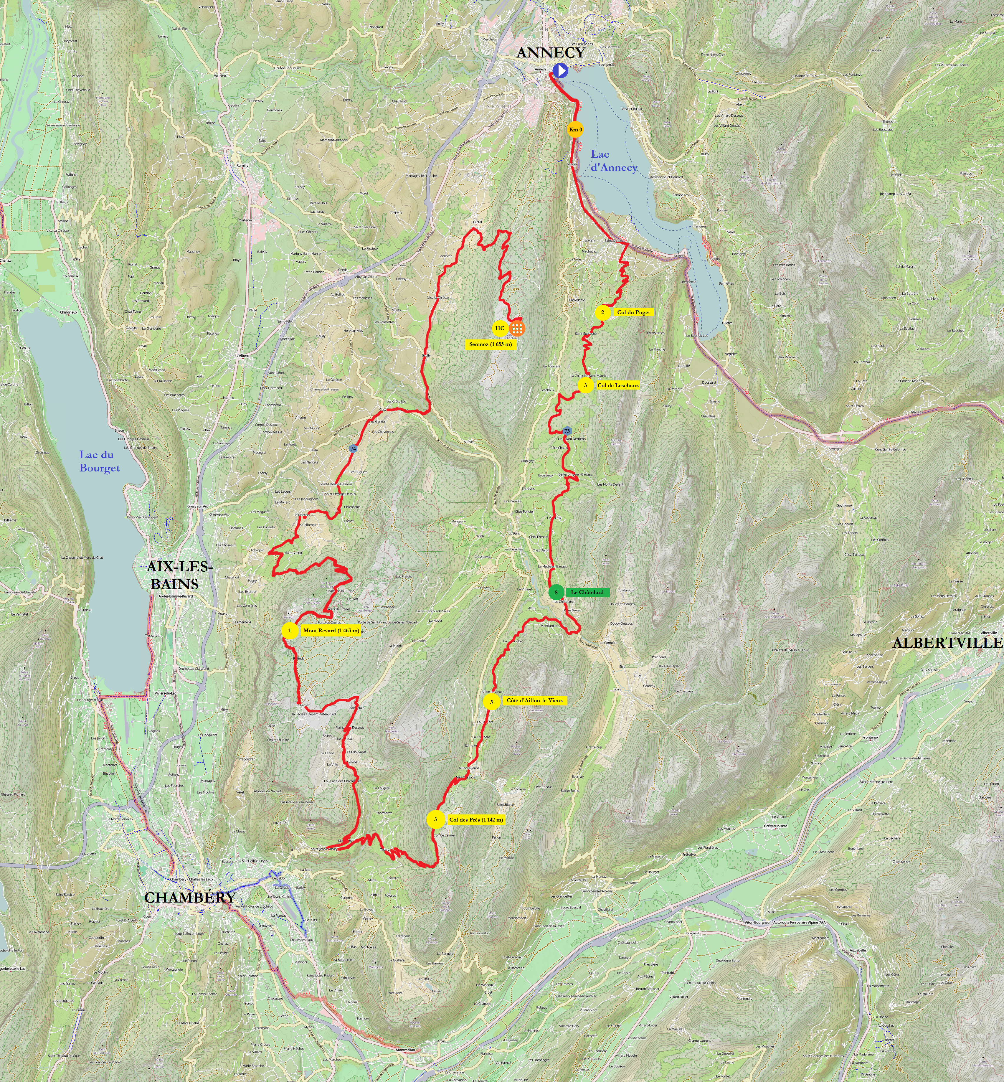 Map of the route of the 20th stage of the Tour de France 2013 in the Bauges mountains in Savoie and Haute-Savoie (73/74). This route starts in Annecy and ends up at the Semnoz (1 653 meters high).